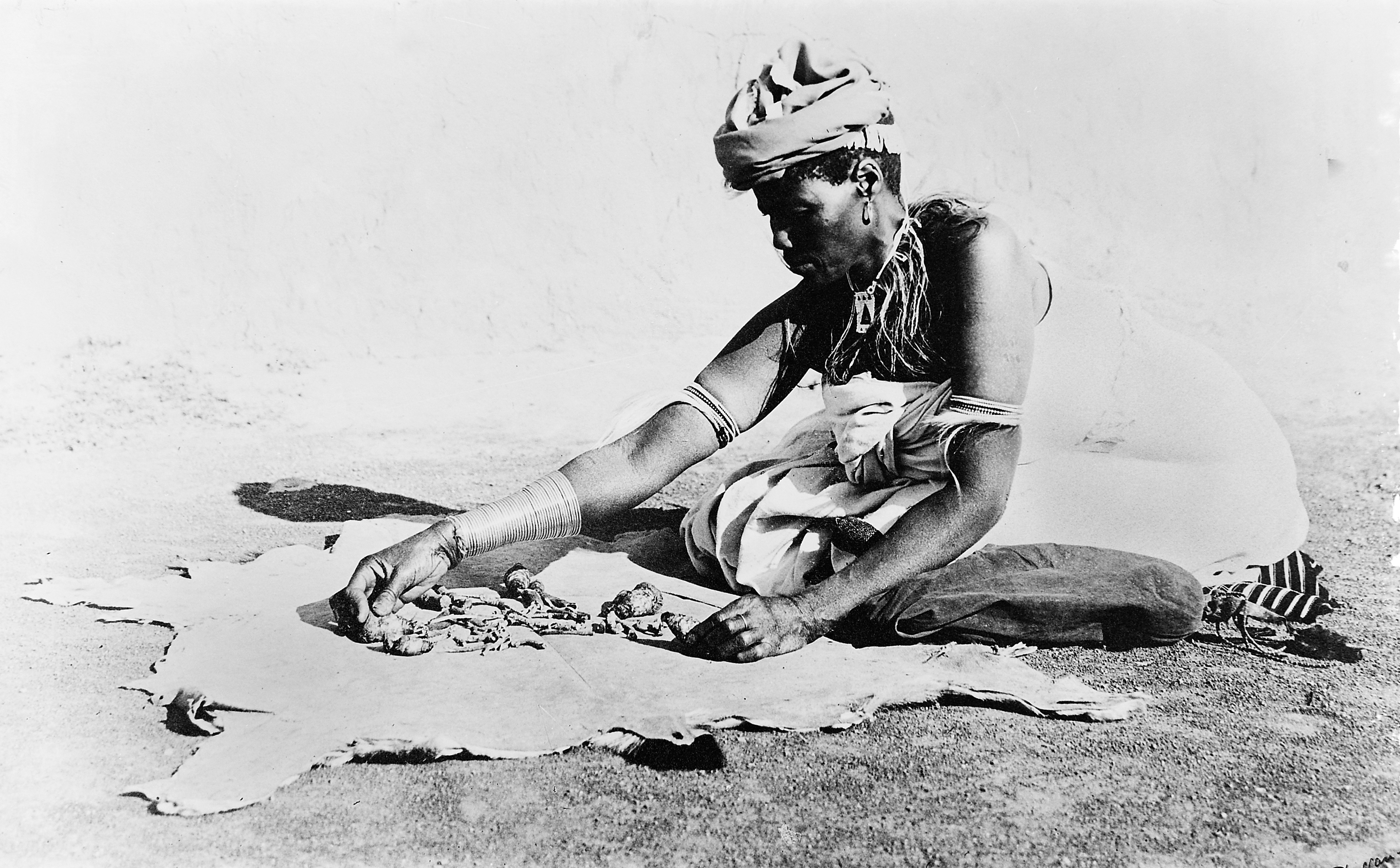 Yemba Witch Doctress, South Africa Wellcome Images Keywords: Magic; indigenous : culture; Religion; non-european; practitioner and equipment